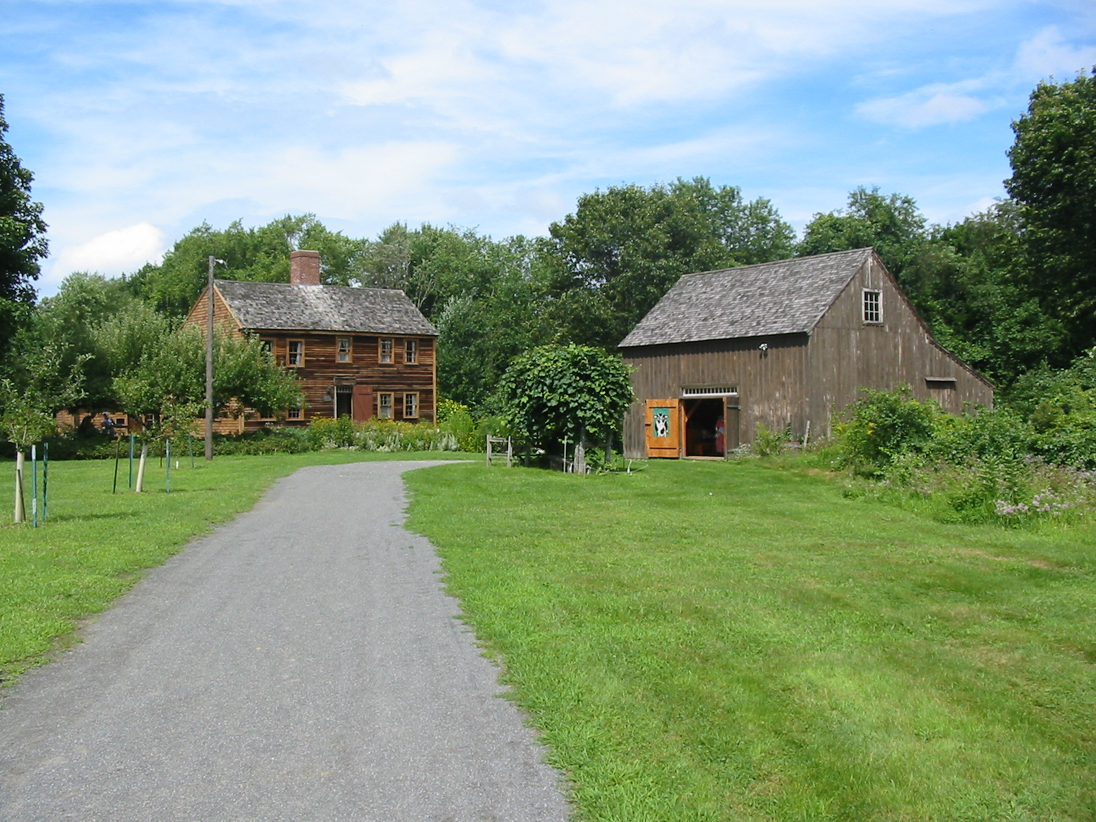 Job Lane House, Bedford, Mass, USA.